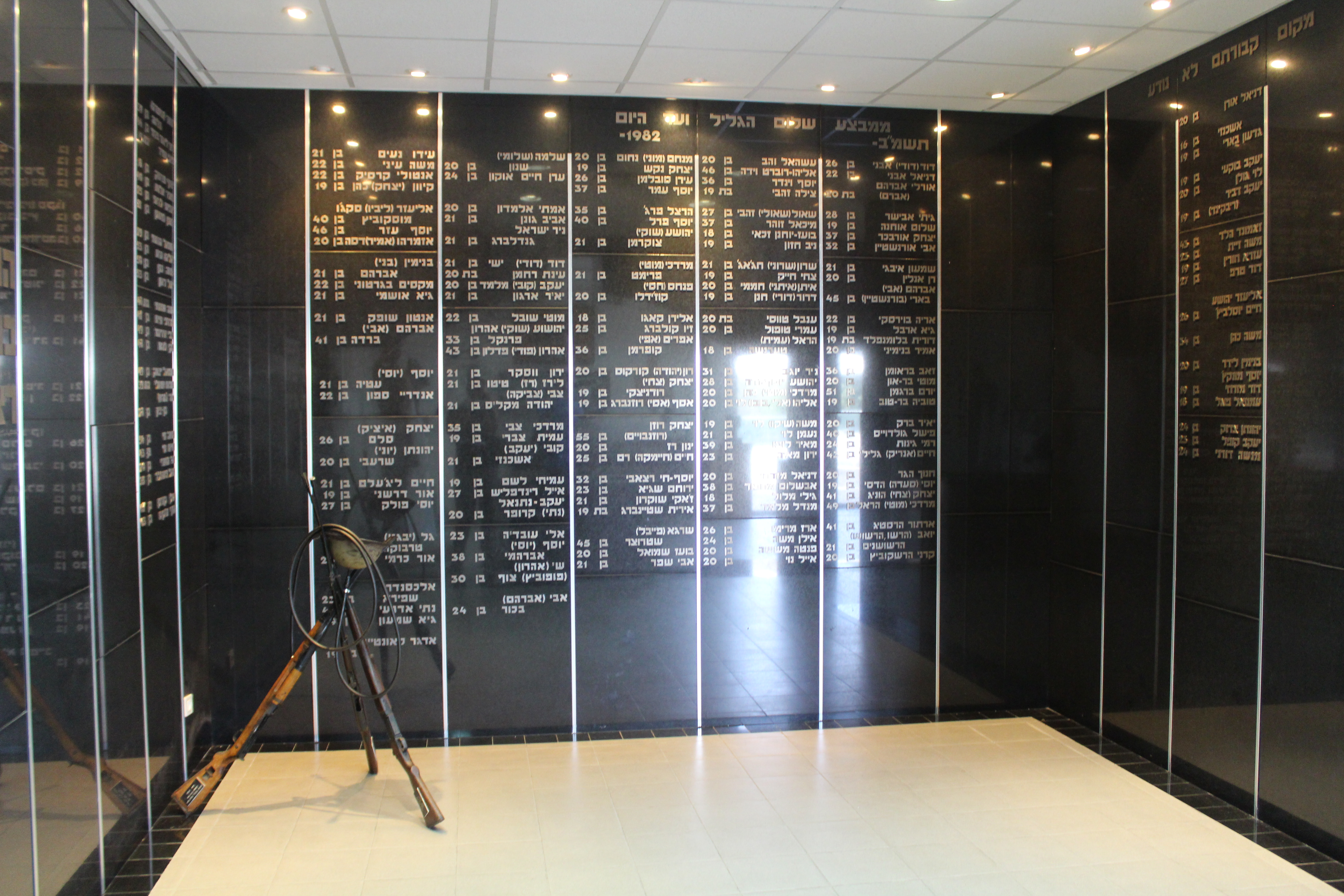 Yad la-Banim (Memorial Hall), Petah Tikva, Israel This image was taken as part of the Elef Millim project trip to Petah Tikva which was held on Friday, 19th July 2013. To view all images uploaded as part of the Elef Millim Project